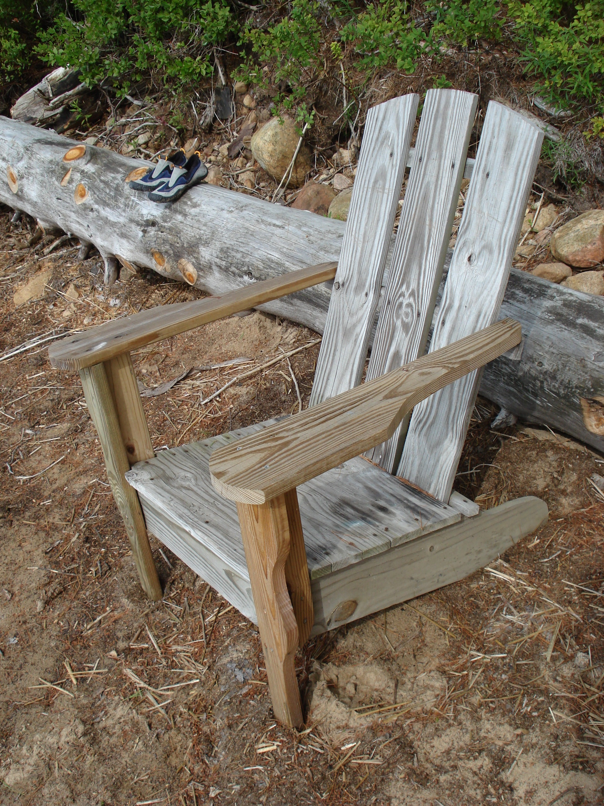 An Adirondack Chair sitting on a beach. Taken at Big Moose Lake.